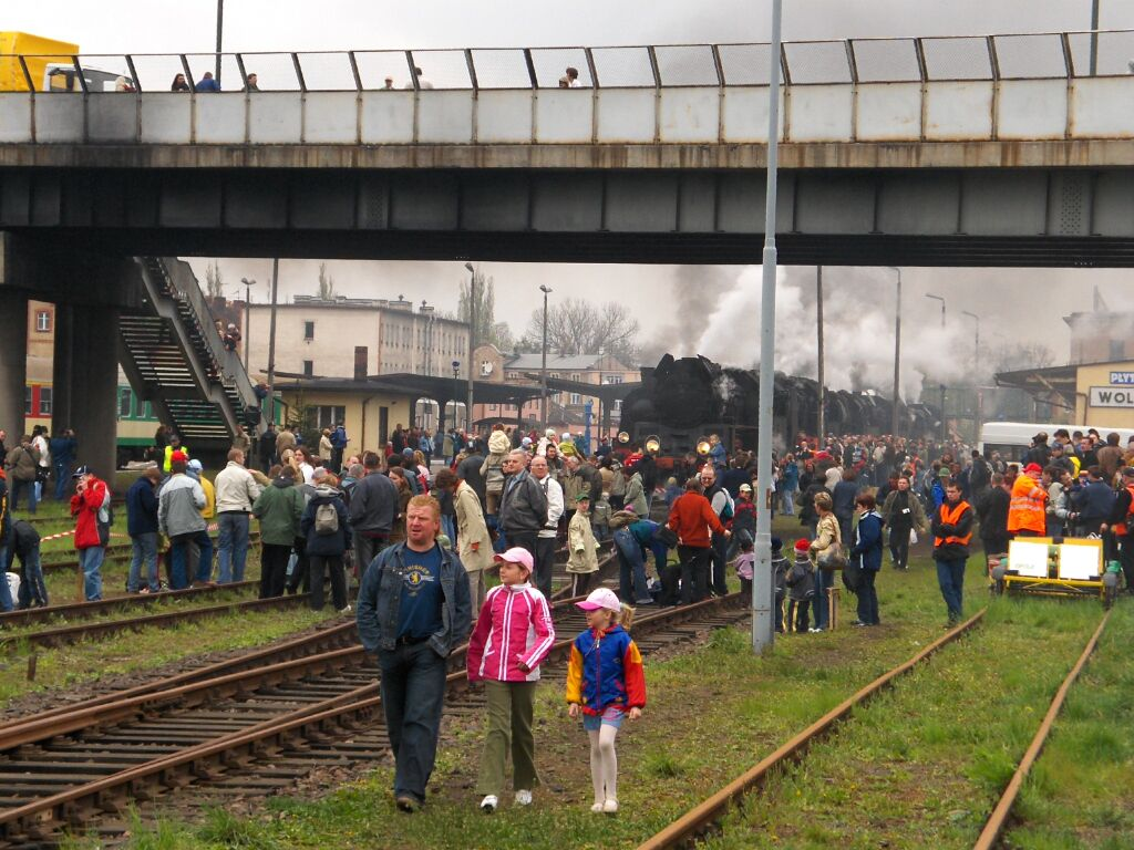 Steam Trains Parada in Wolsztyn, Poland